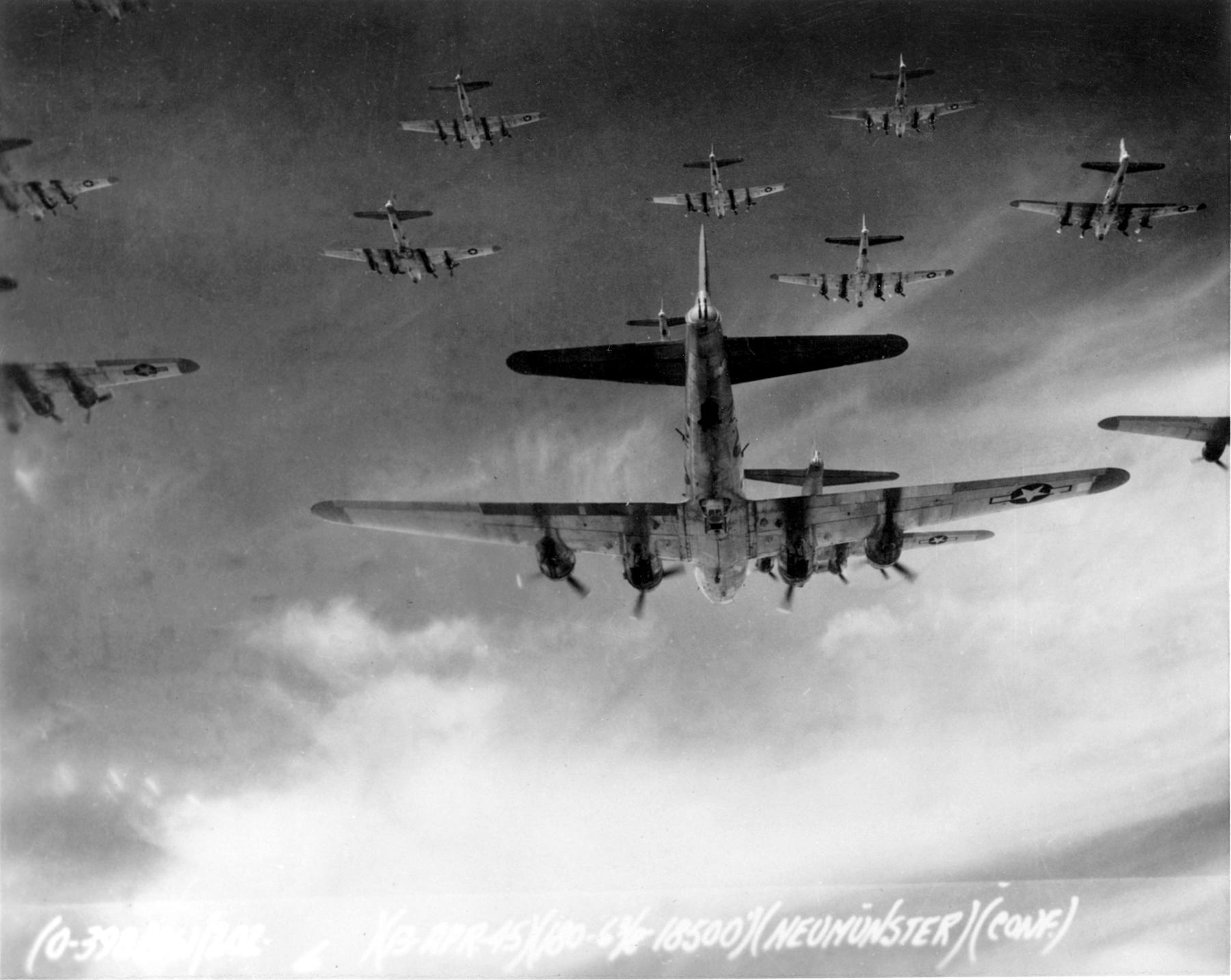 OVER GERMANY -- B-17 Flying Fortresses from the 398th Bombardment Group fly a bombing run to Neumunster, Germany, on April 13, 1945, less than one month before the German surrender on May 8.